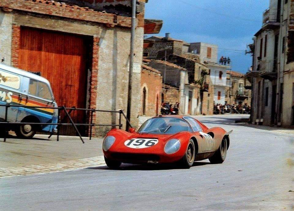 Entry #196 at Targa Florio on 8 May 1966 was a Dino 206S berlinetta driven by Jean Guichet (and Giancarlo Baghetti) for the Scuderia Ferrari team. They ended in 2nd place, good job. The car may have had serial number 0852 at the time of this picture, it was then restamped to s/n 002, as it was the second Dino 206S made. [1] (The location: Unknown. Reminiscent of Collesano streets)